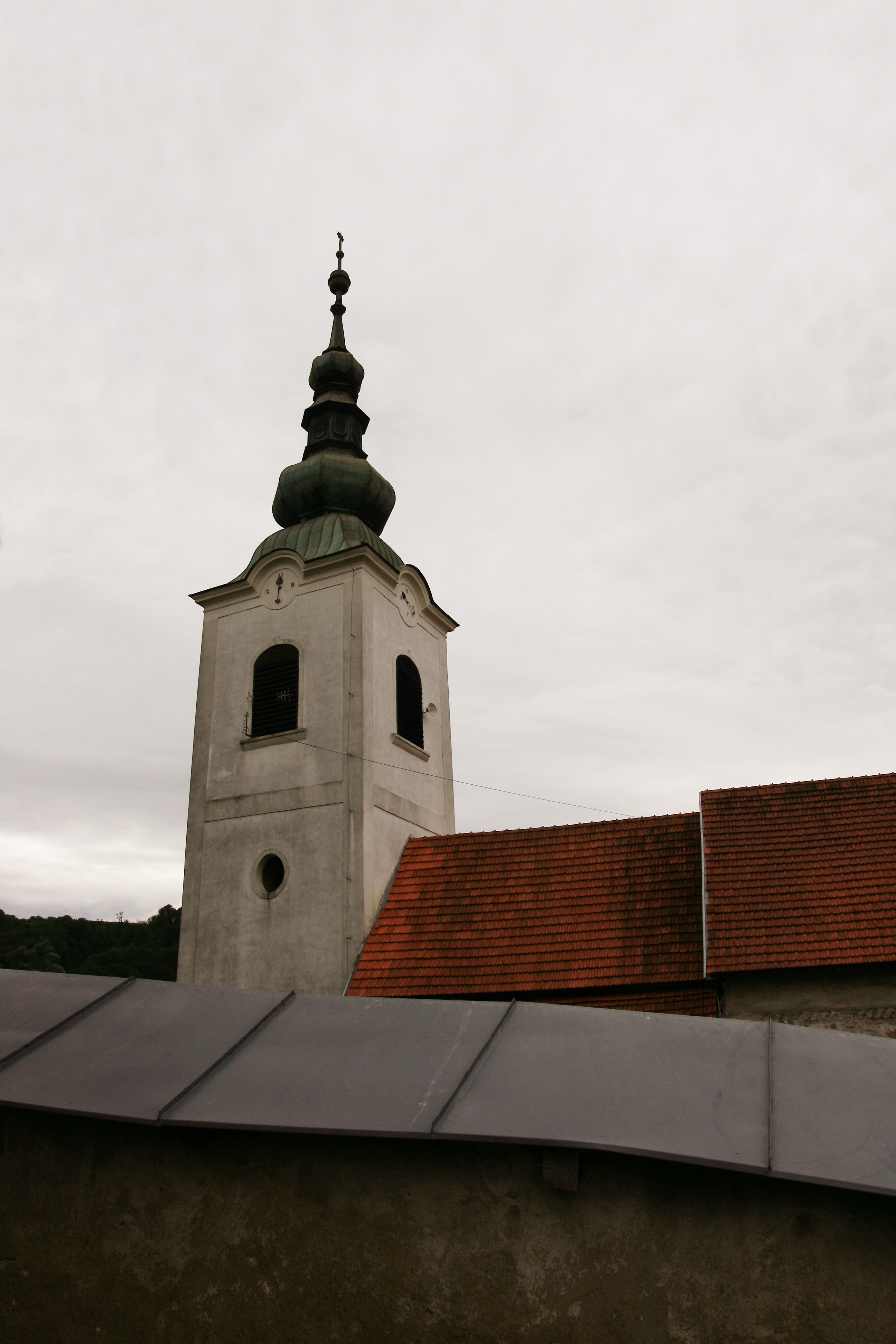 Gothic Lutheran church in Rimavská Baňa, Slovakia